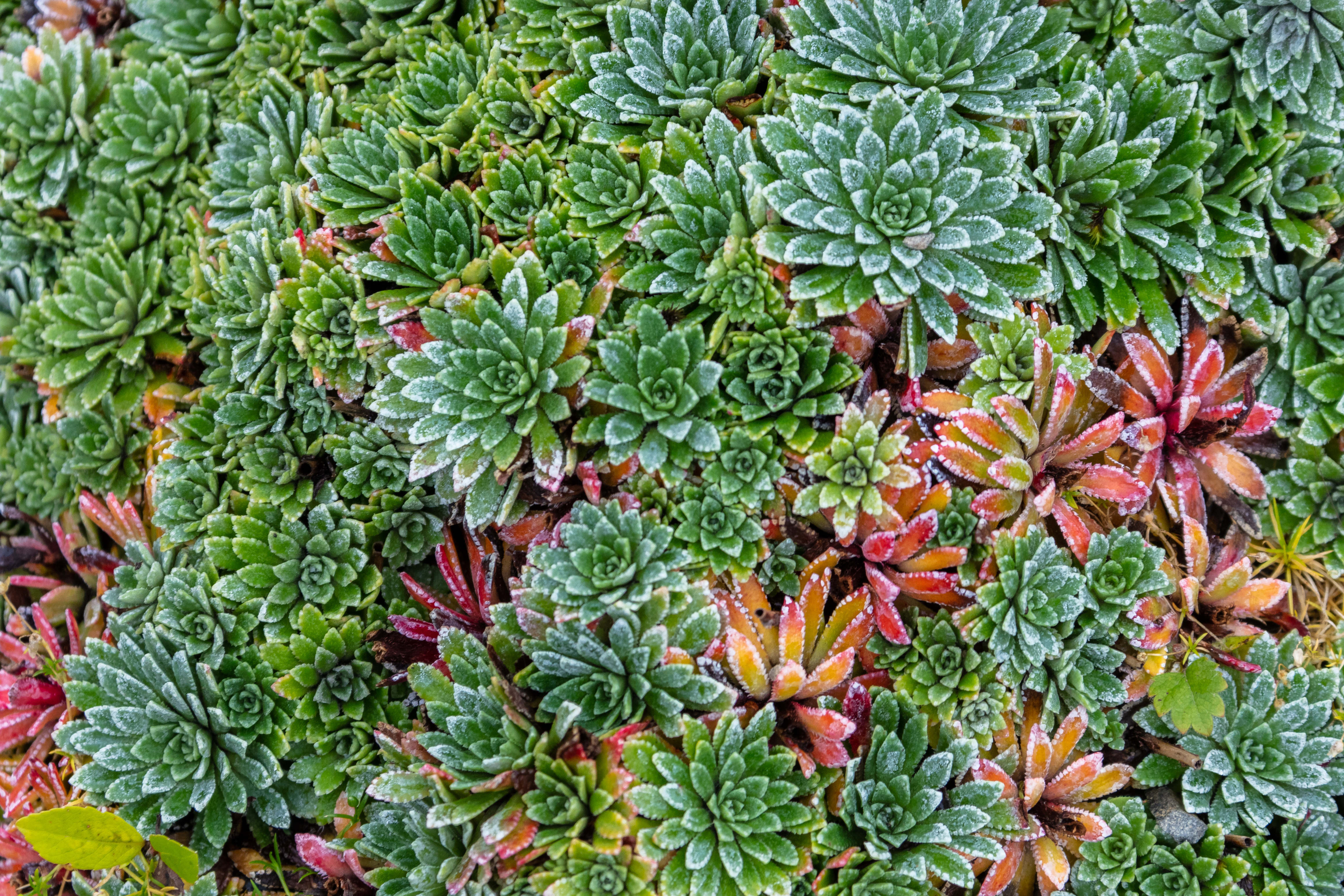 Saxifraga paniculata, Arctic-Alpine Botanic Garden, Tromsø, Norway